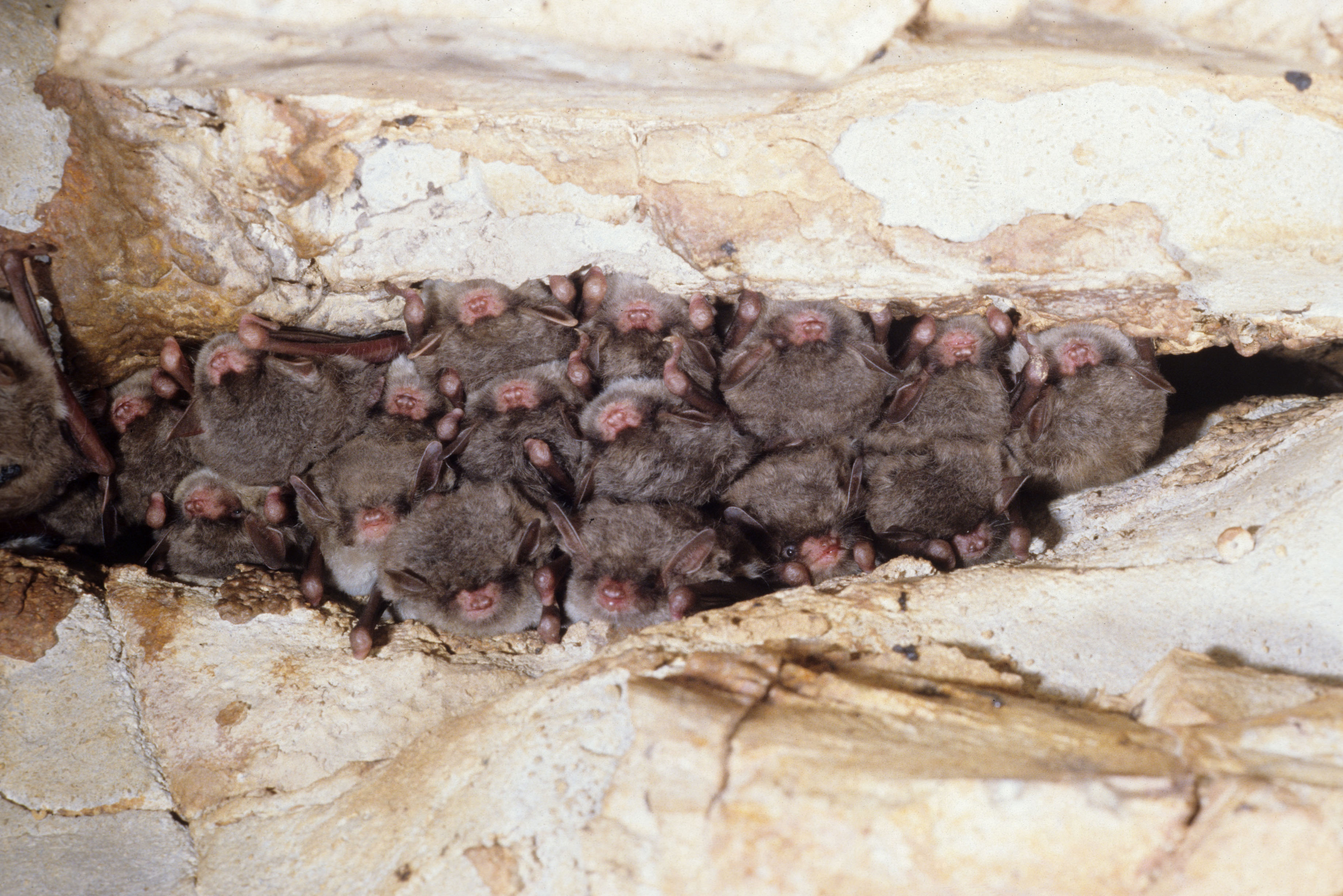 Southeastern myotis (Myotis austroriparius) hibernating - Photo credit: KDFWR/ John MacGregor